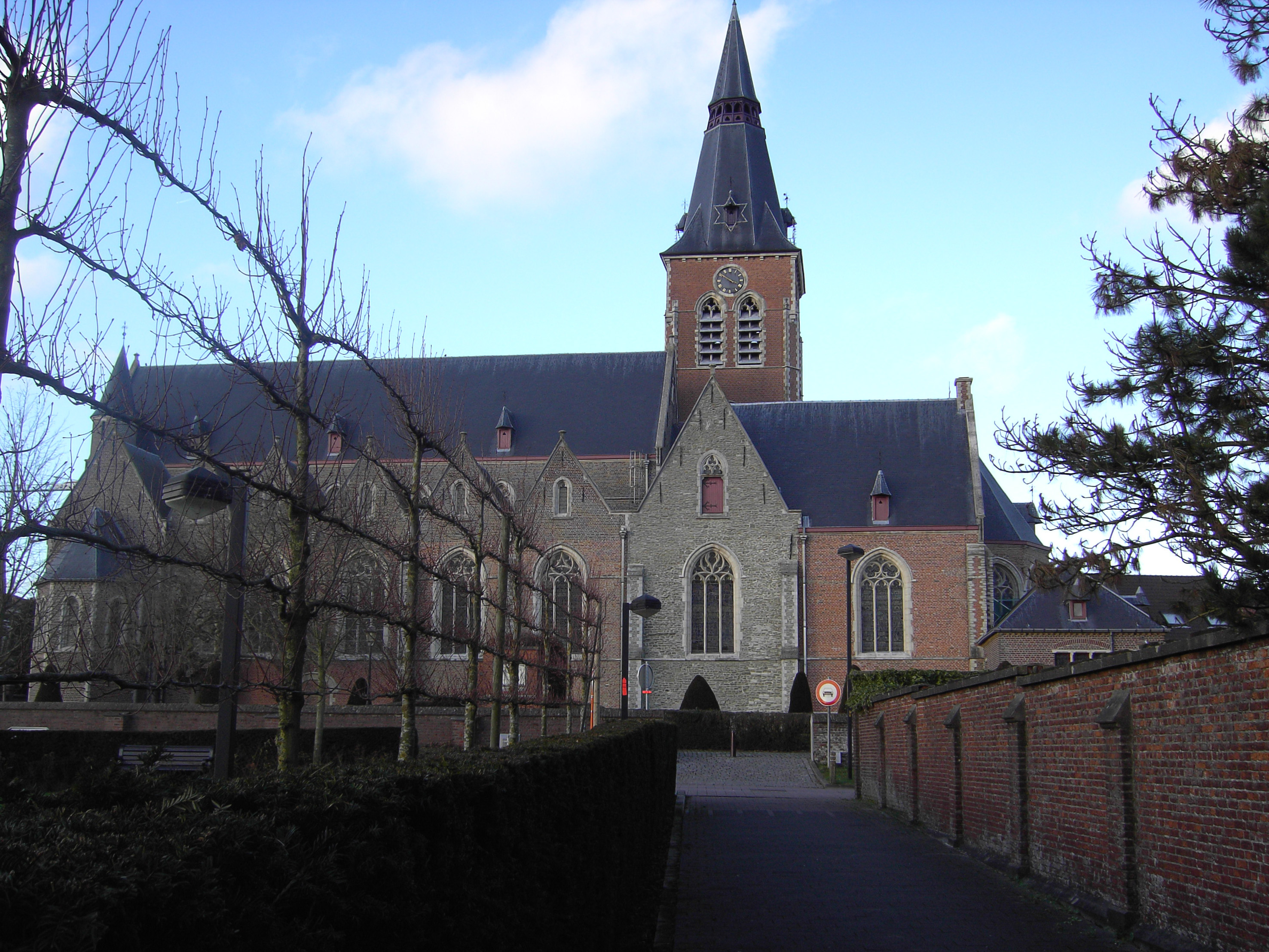 Church of Saint Cornelius in Aalter. Aalter, East Flanders, Belgium